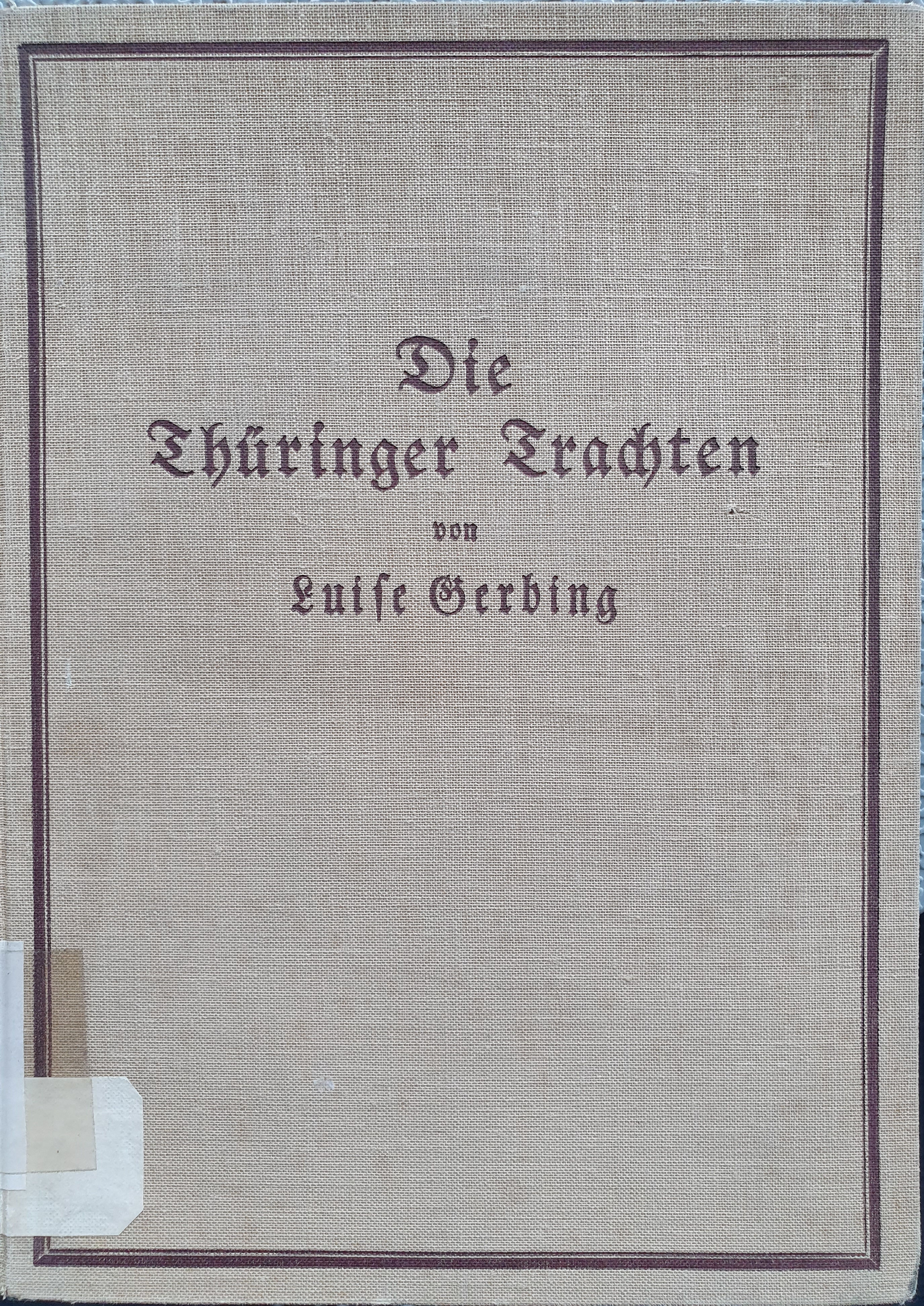 Book cover "Die Thüringer Trachten", author: Luise Gerbing